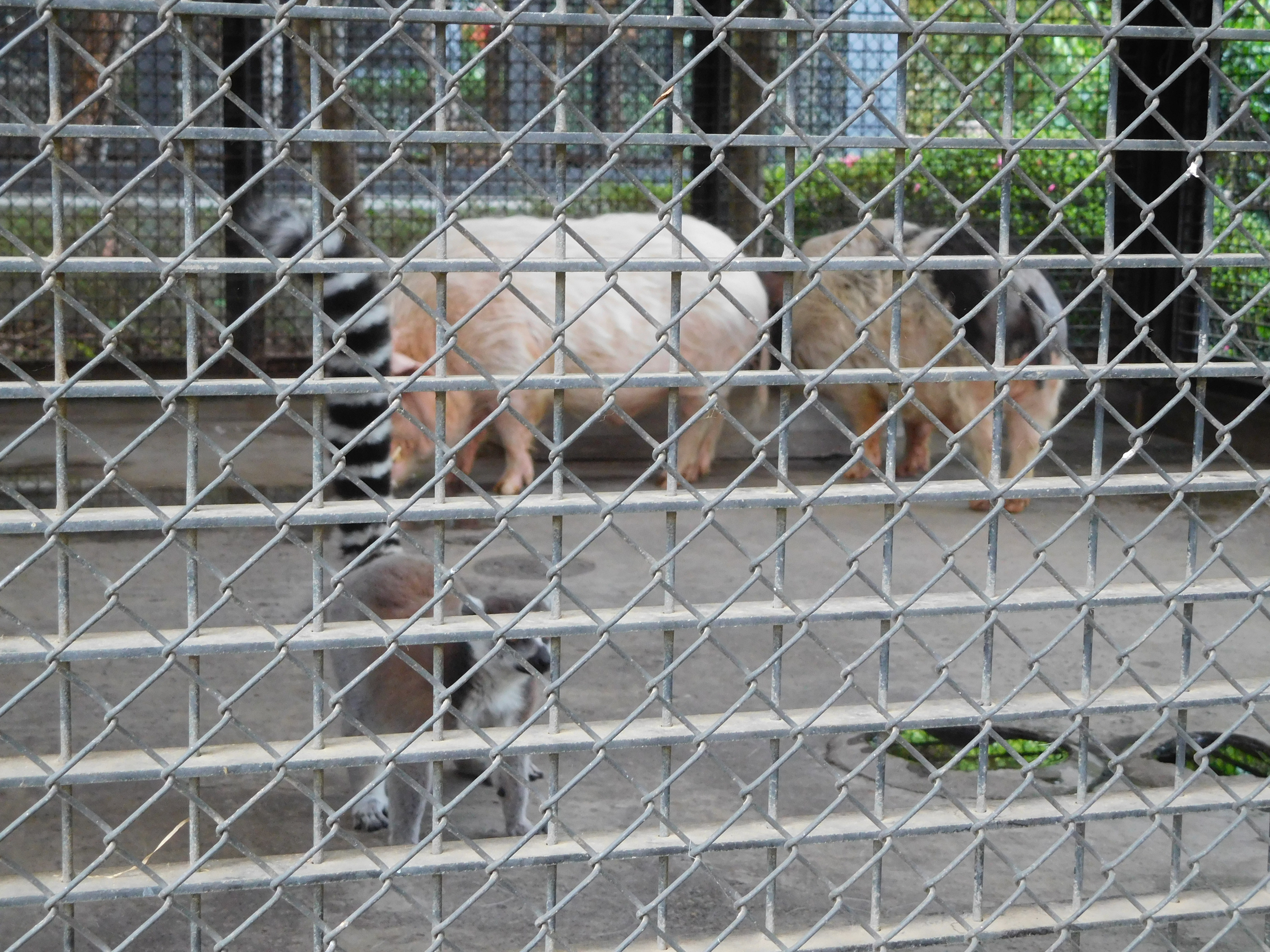 This is a small zoo in Hachimanyama Park, Utsunomiya, Tochigi, Japan.